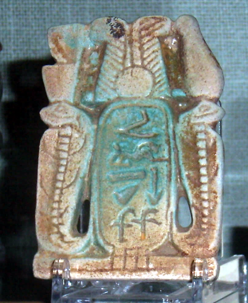 votive cartouche of the Nubian king Malonaqen, found at Kawa; Oxford, Ashmolean Museum